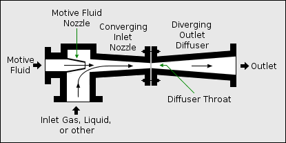 This is entirely my own work and it was drawn by using Microsoft's Paint program. - mbeychok 08:06, 25 June 2007 (UTC)